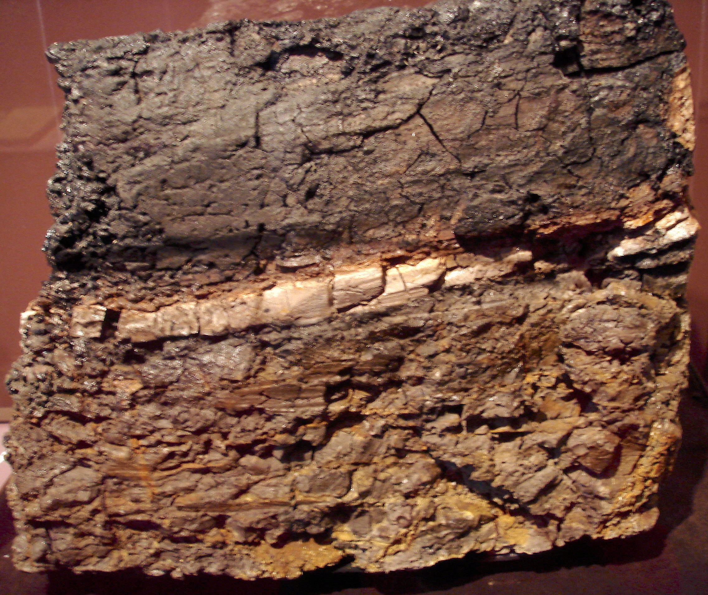 The intermediate claystone layer contains 1000 times more iridium than the upper and lower layers. It is the boundary between Cretaceous and Tertiary Periods. Picture taken by the author at San Diego Natural History Museum. The rock is from Wyoming, USA.